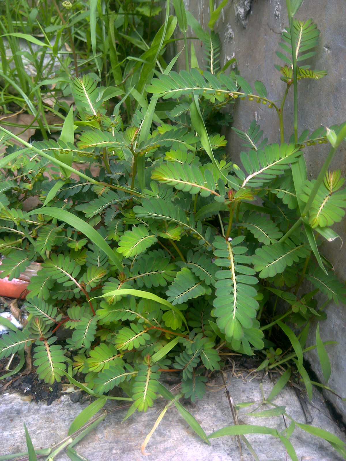 Chamber bitter plant growing among grass in a garbage area.